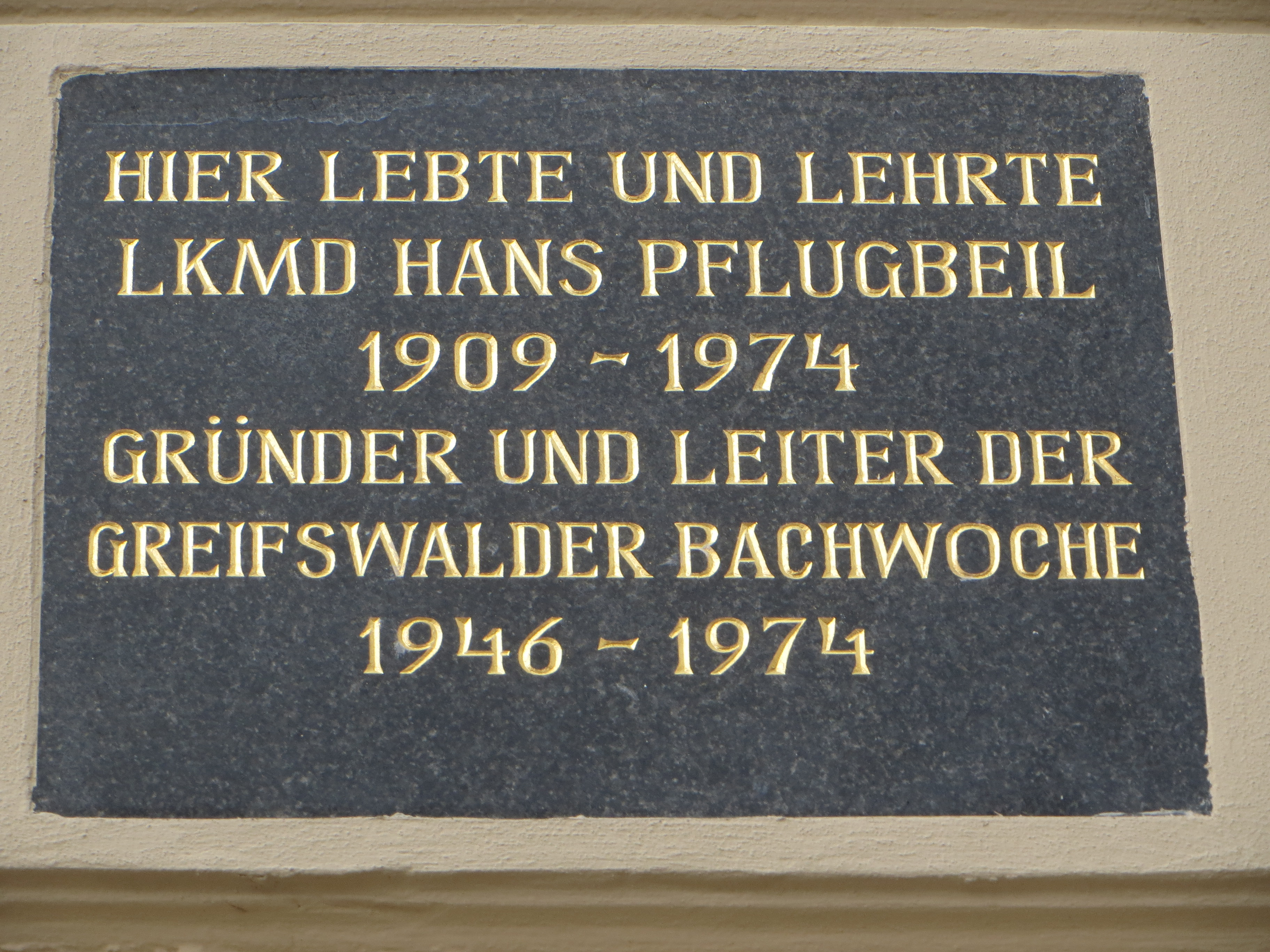 Bahnhofstrasse 48/49 in Greifswald, Institut fuer Kirchenmusik